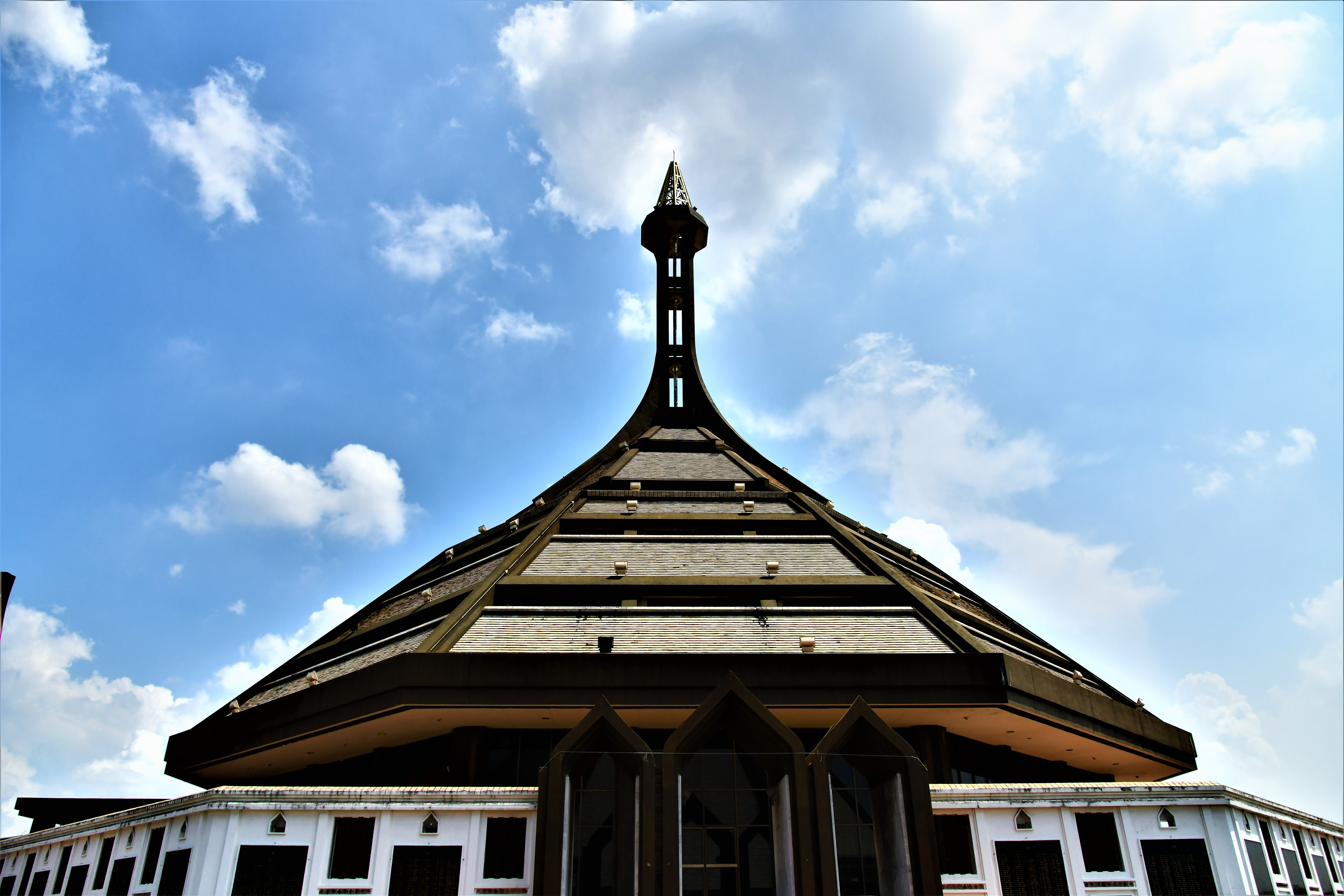 The National Memorial of Thailand